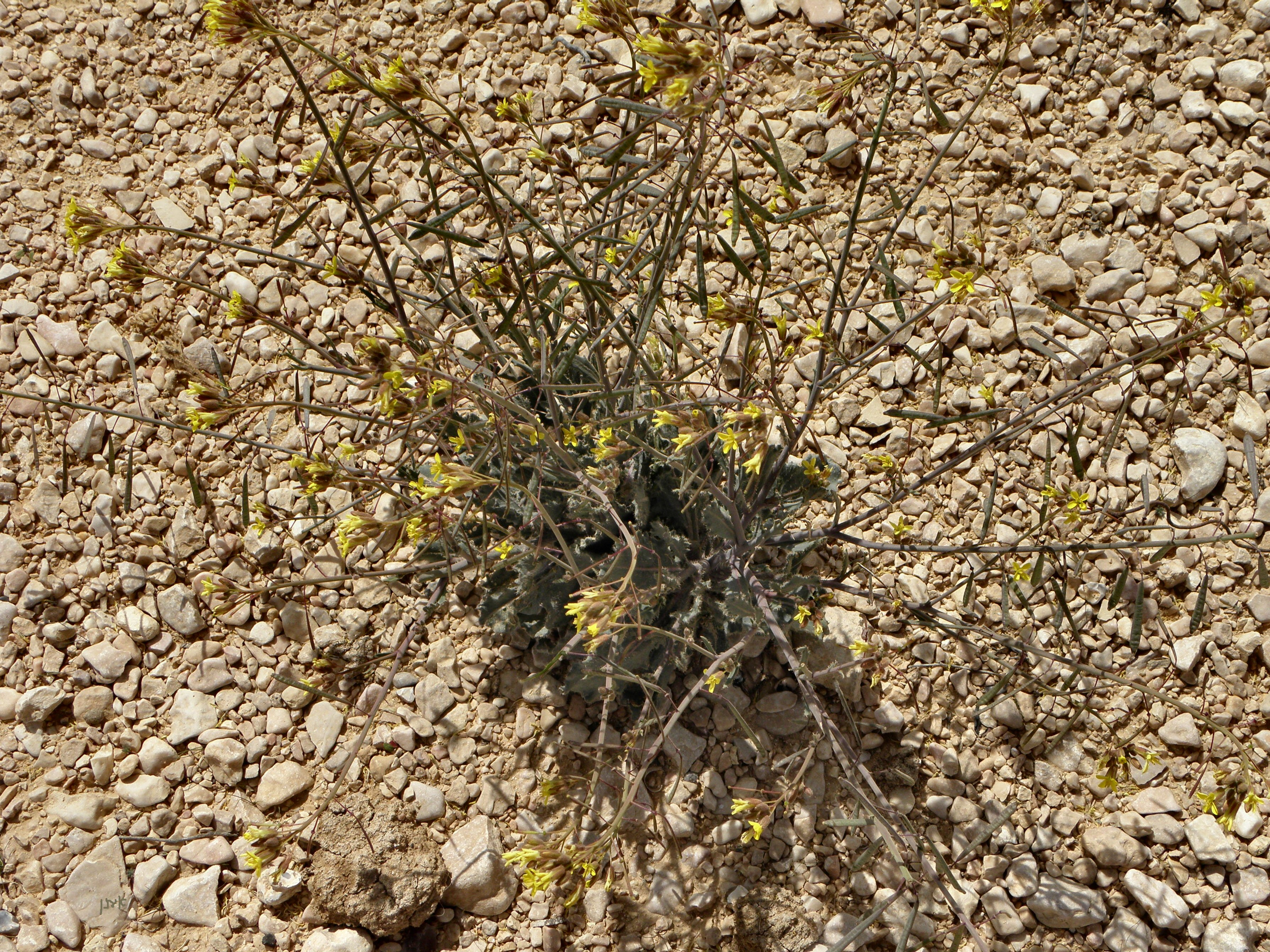 Diplotaxis harra, southern Negev (Timna)